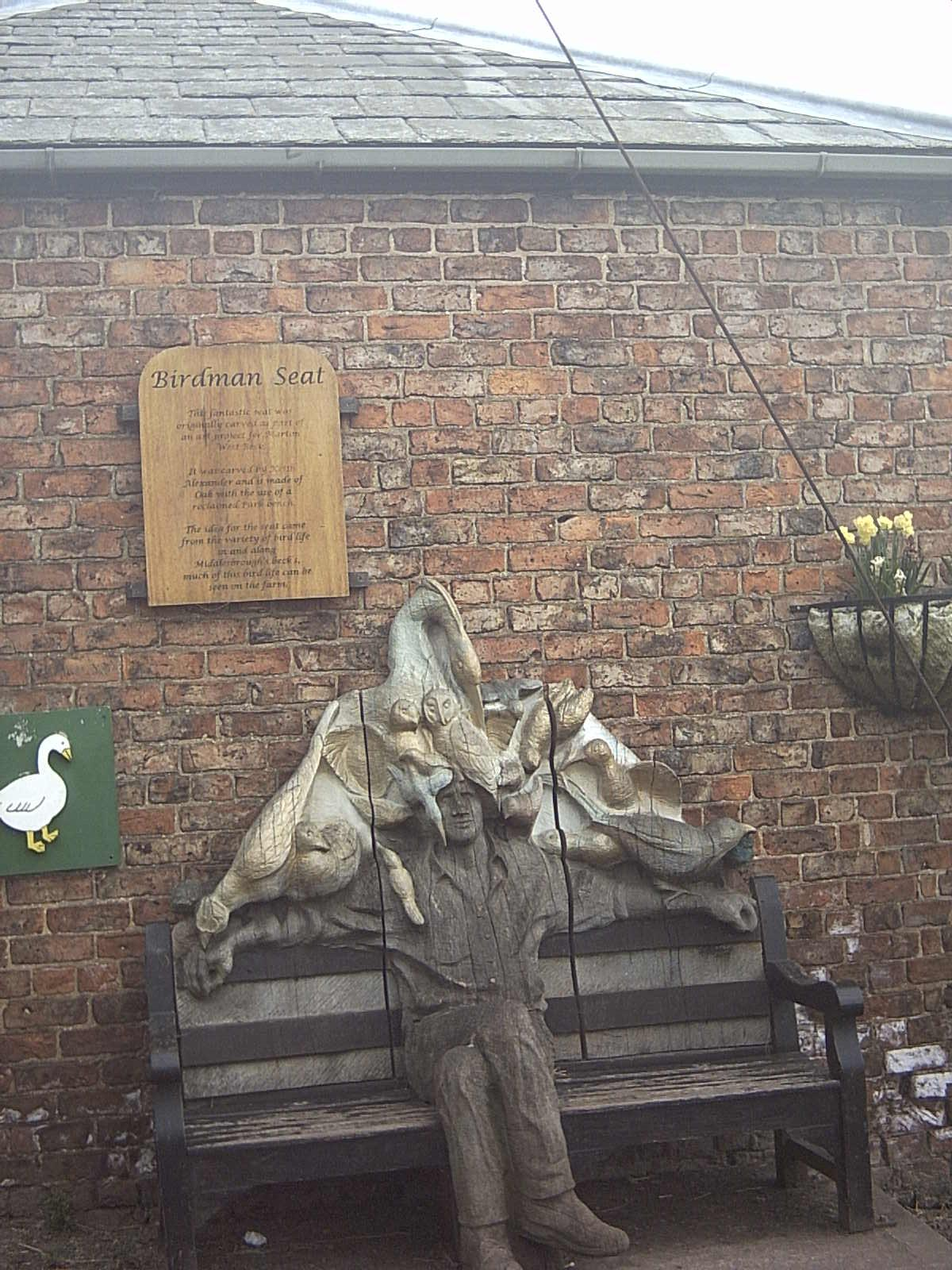 Bird-man Seat at Newham Grange Leisure Farm, Coulby Newham, Middlesbrough.